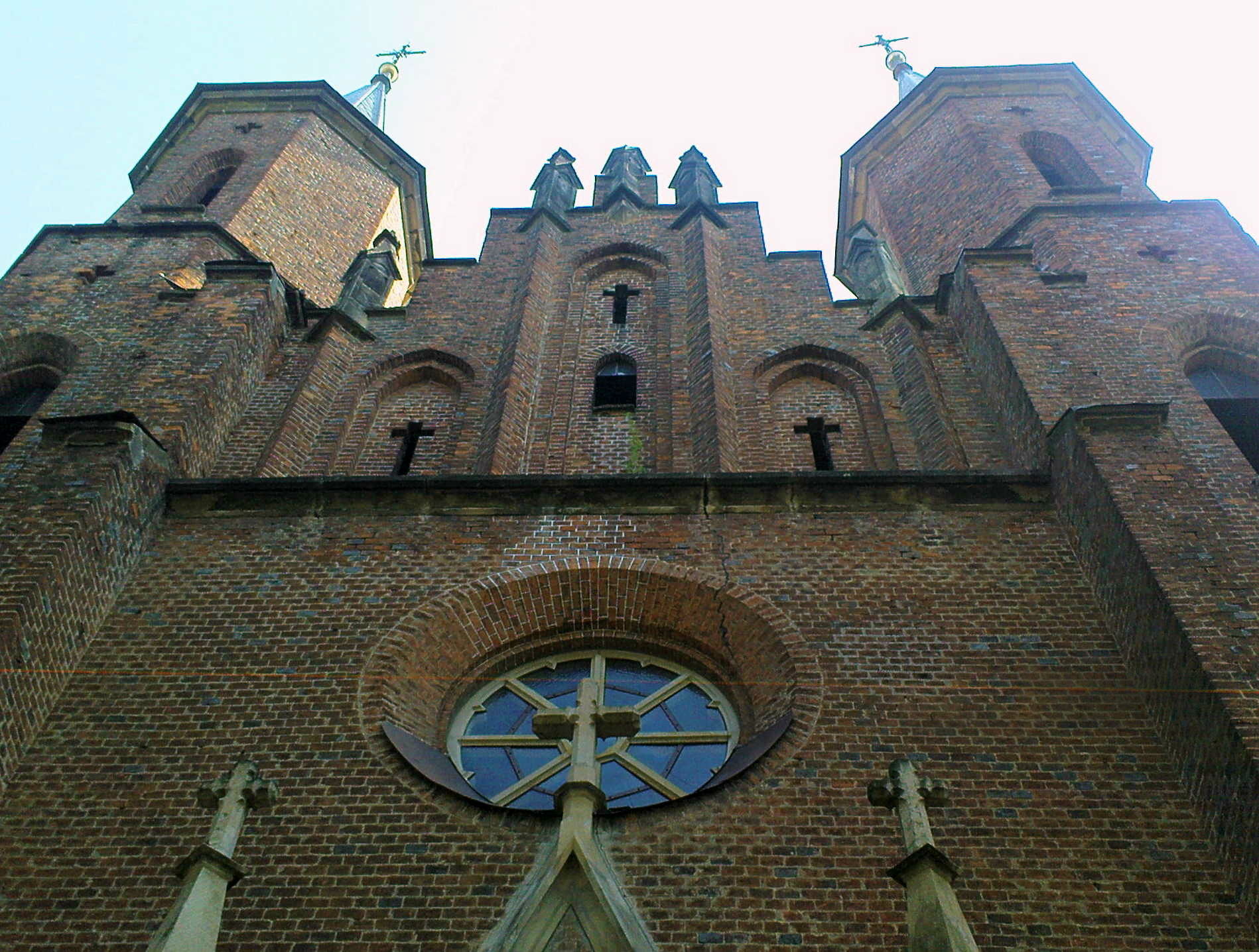 Parish Church of St. Martin the Bishop in Łużna